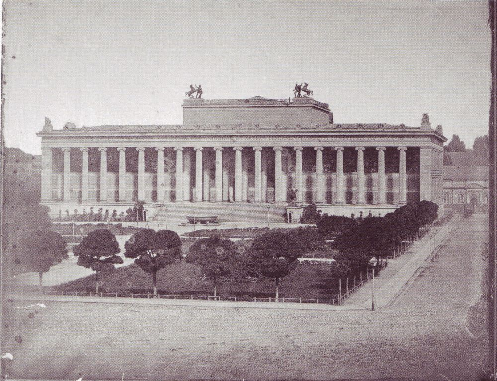 Altes Museum on Museum Island in Berlin, prior to 1854